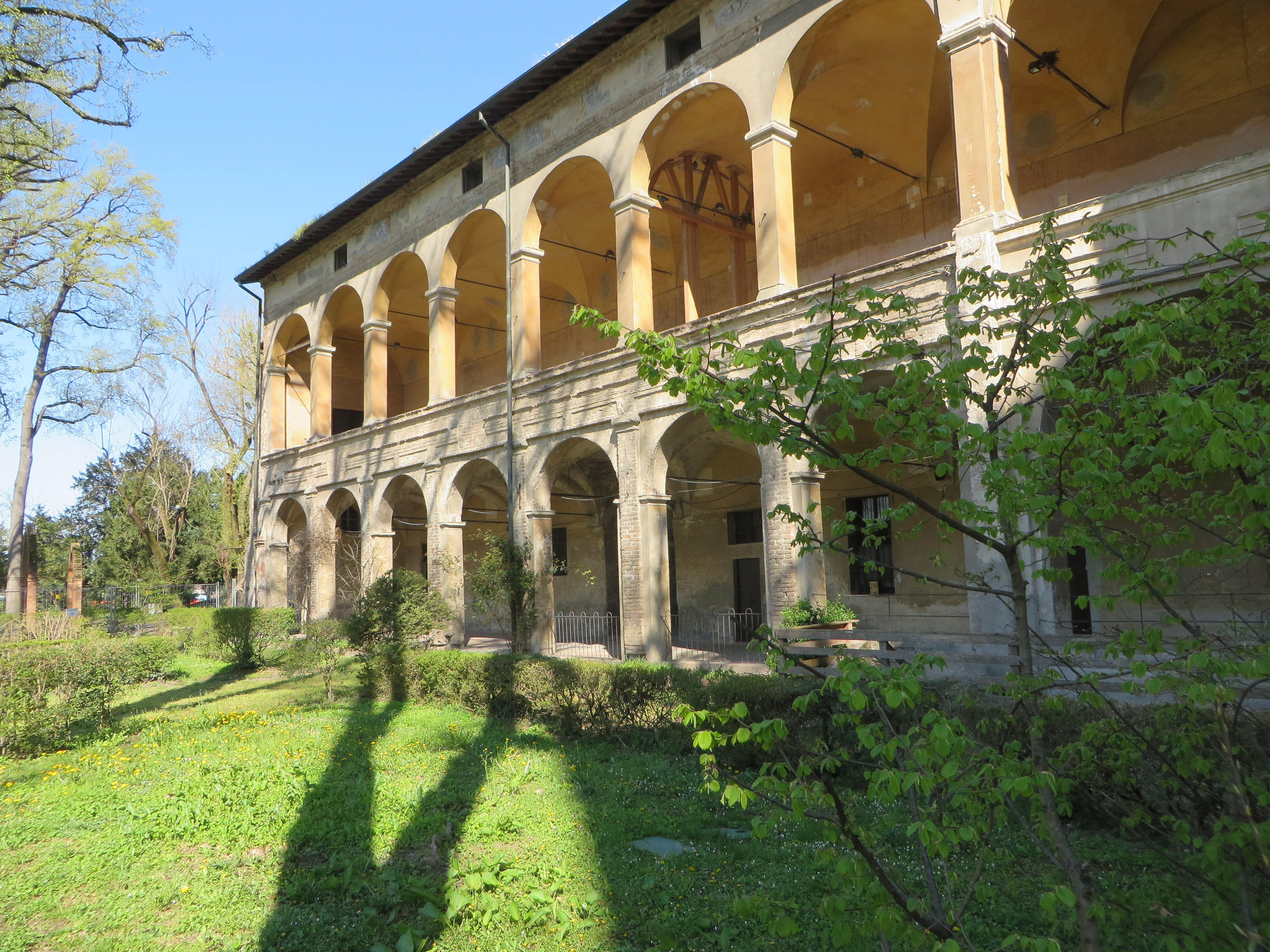 Castle